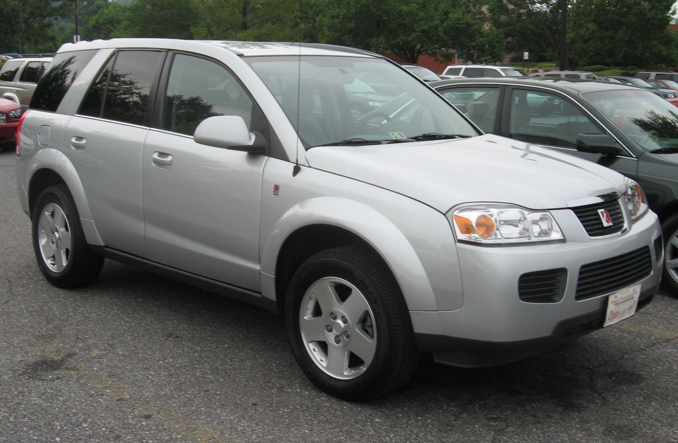 2006-2007 Saturn Vue photographed in USA.